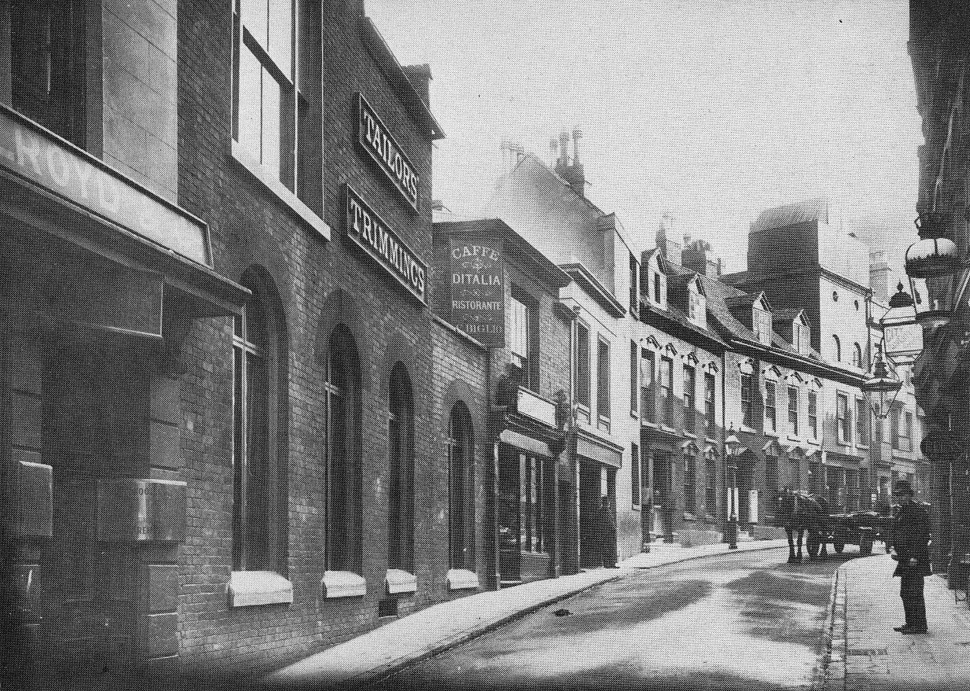 Cannon Street, Birmingham, England, pictured in 1892, with the sign of "Caffe D'Italia" visible in the centre.